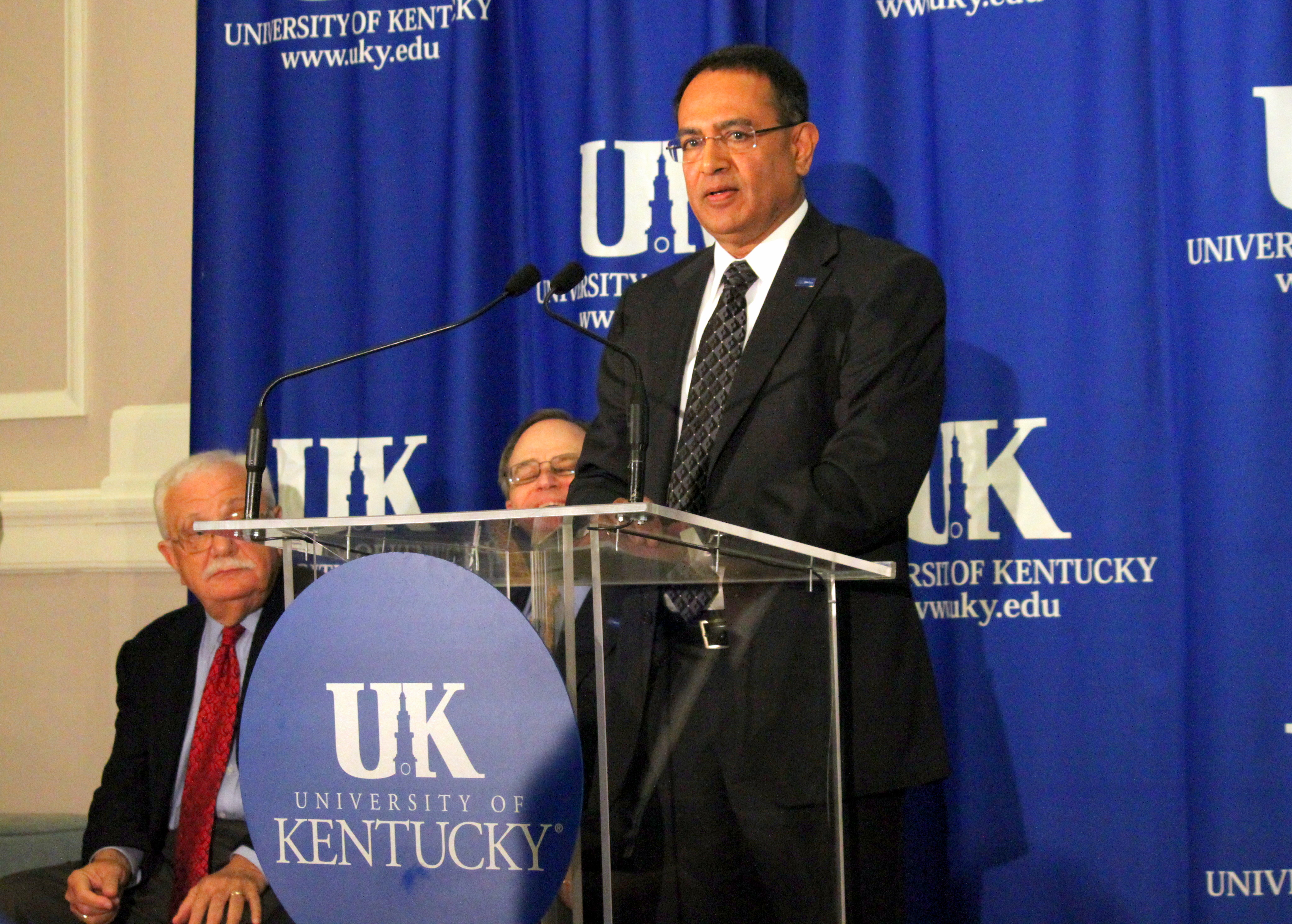 Dr. Kumble Subbaswamy talks about the importance of multidiscplinary research.